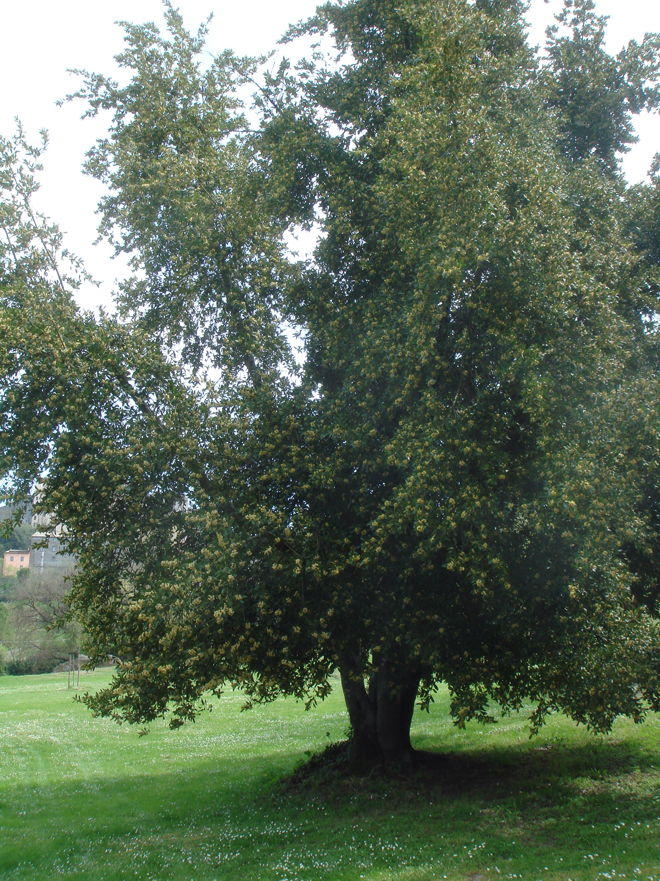 Laurus nobilis growing as solitary tree in a park in Bormarzo, Italy.